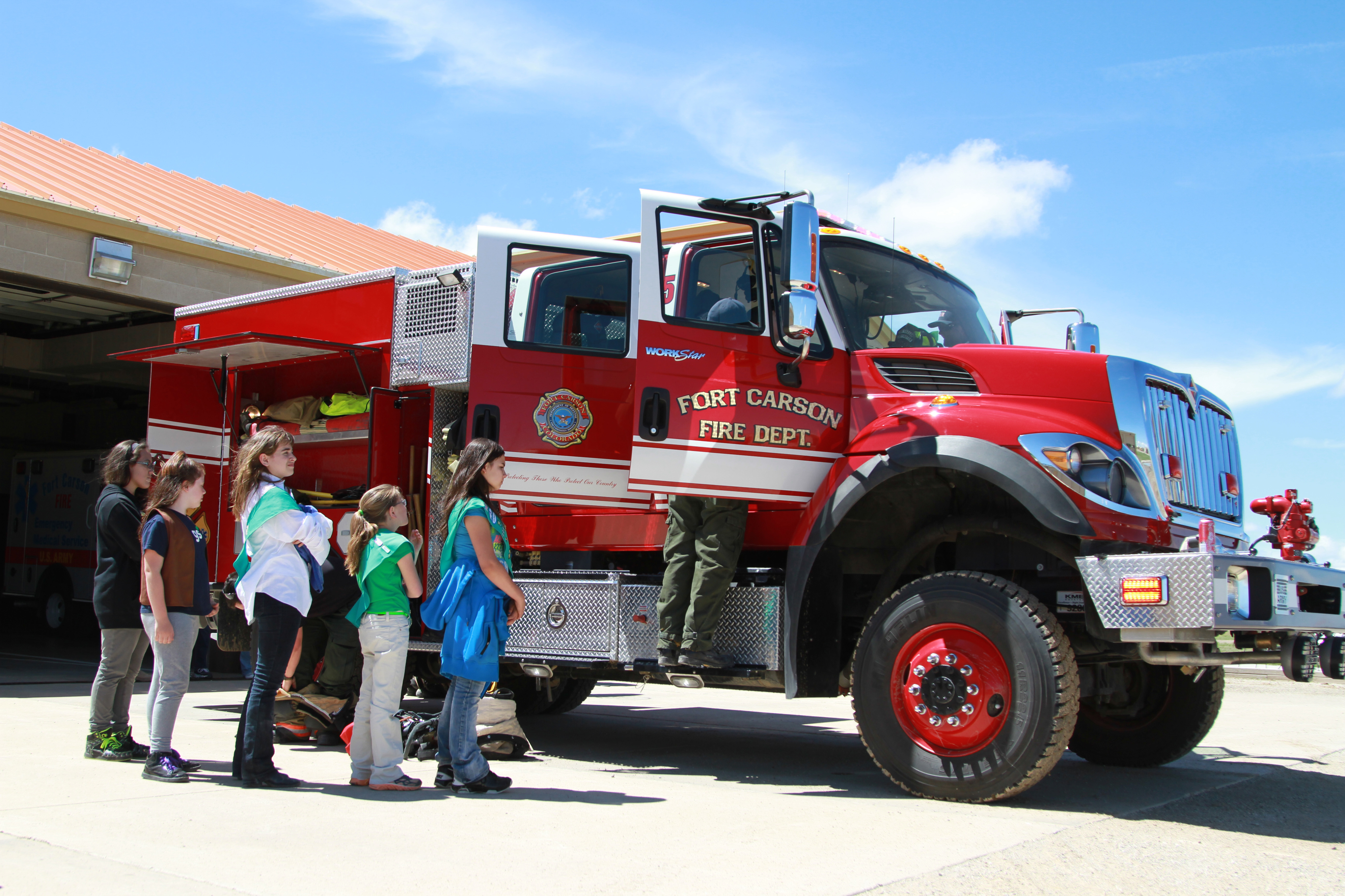 Girl Scouts from the Trinidad, La Junta and Rocky Ford patiently wait to explore a fire truck with firefighters from Fort Carson Fire Department Station 35 at the Piñon Canyon Maneuver Site, May 30, 2015. The youth visited to learn about the vehicles, deliver about 800 boxes of Girl Scout Cookie donations and earn their hometown hero merit badge.